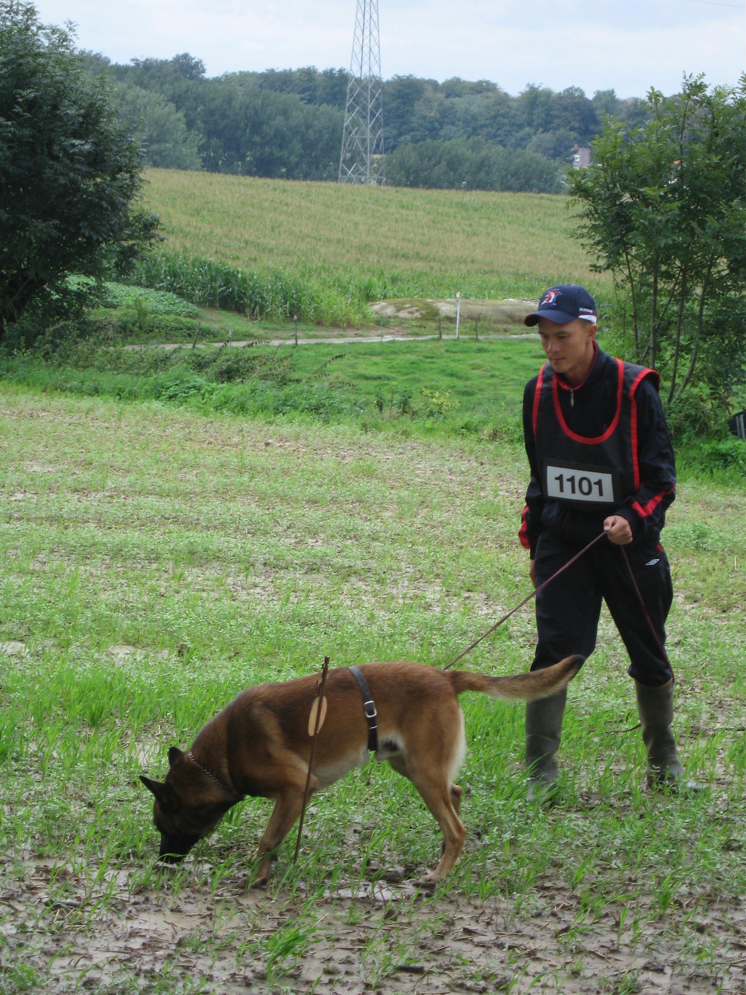 Tracking Phase: Felix Ho Tracking with Schwarchund Marko 中文（香港）: 追蹤環節：何斐然與炮艇訓練追蹤